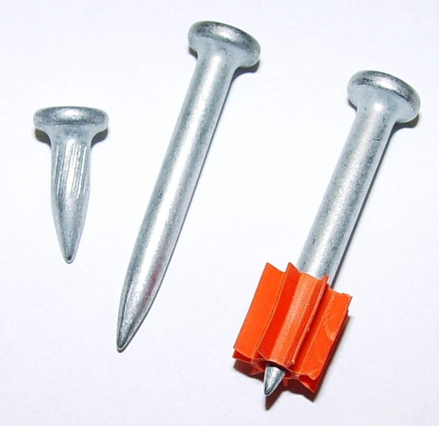 This is an example of a powder actuated fastener.